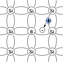 A sketch of an acceptor in Silicon crystal lattice in 2D